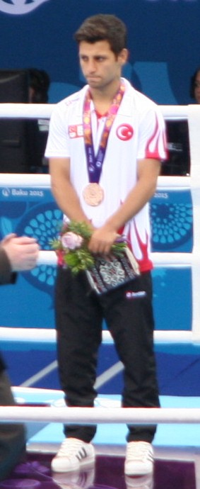 Muhammed Unlu at the 2015 European Games